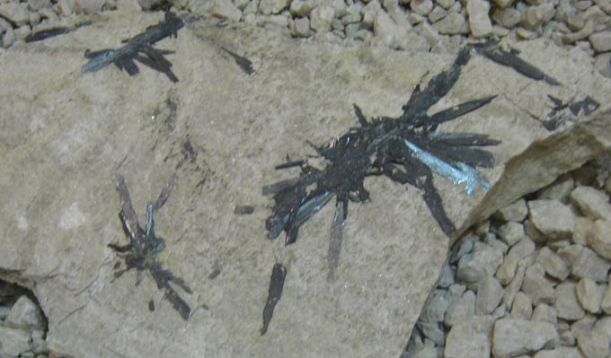 Vivianite from the Foote Mine, North Carolina. On display at the Schiele Museum of Natural History in Gastonia, NC. Field of view is about 1 foot.